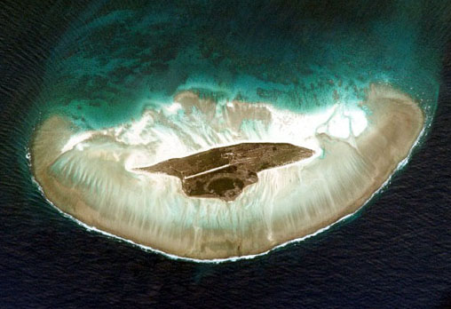 Aerial view of Juan de Nova island in Indian Ocean belonging to Scattered islands, within the territory of the France.